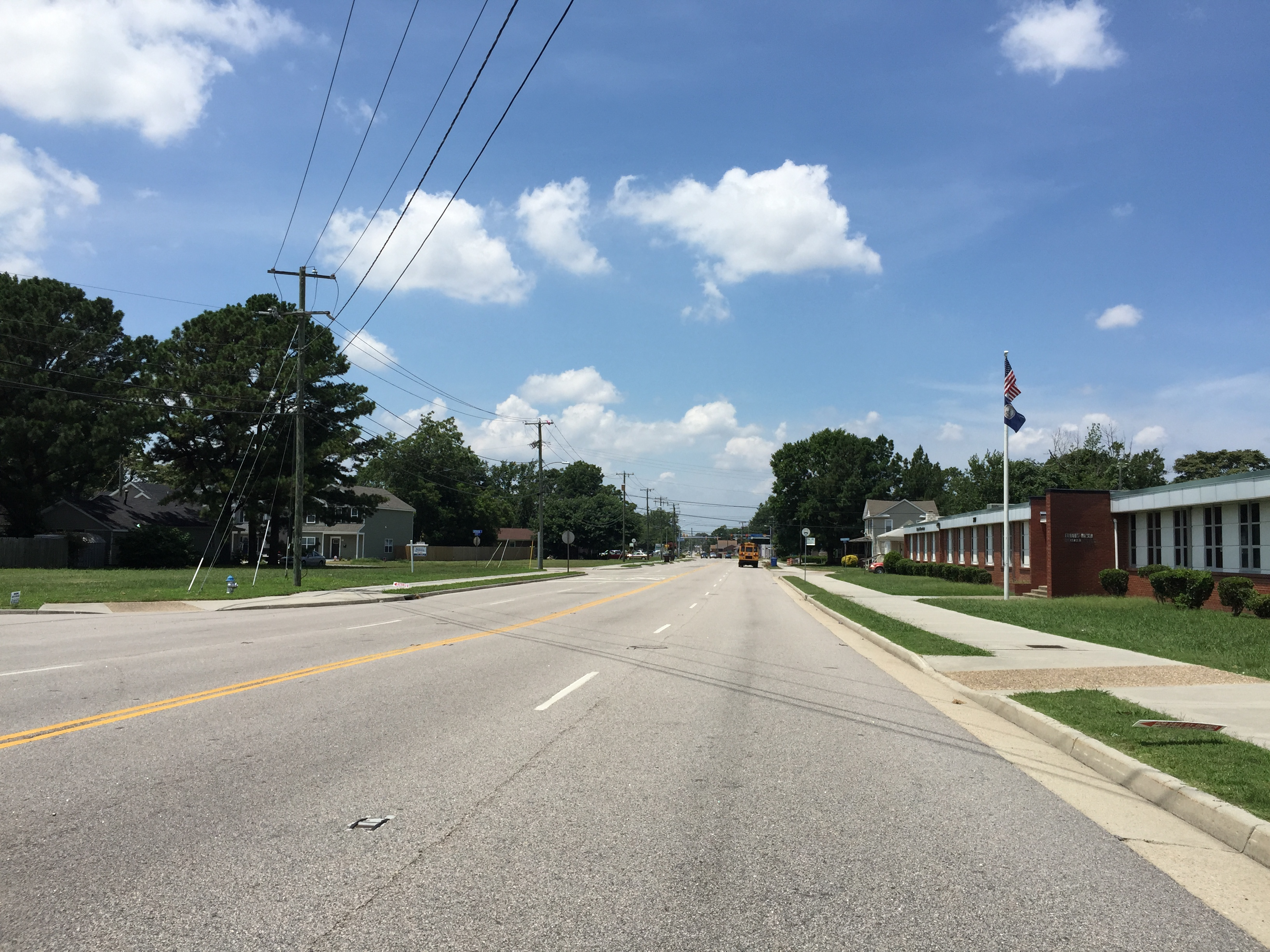 View west along Virginia State Route 246 (Liberty Street) at Stonehurst Street in Chesapeake, Virginia